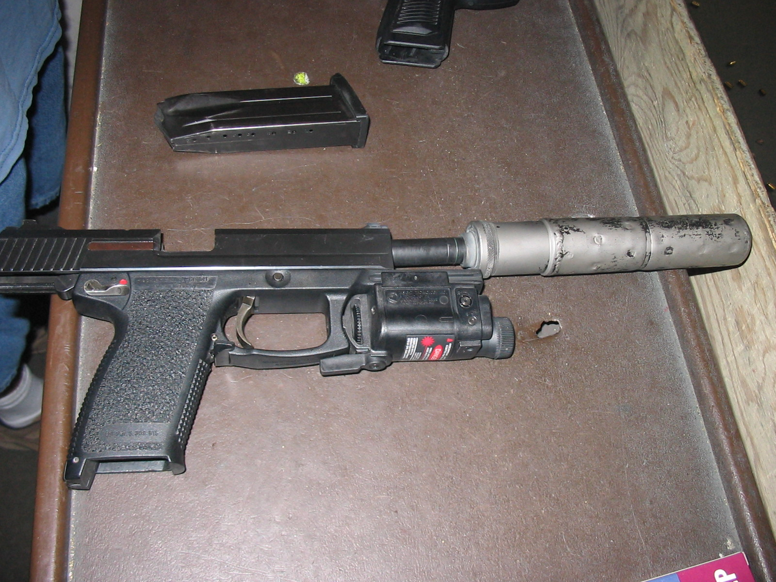 During a session at Manchester Firing Line in Manchester, NH, I took this photo of a rental Mark 23 pistol with a suppressor and a LAM (Laser Aiming Module) attached.